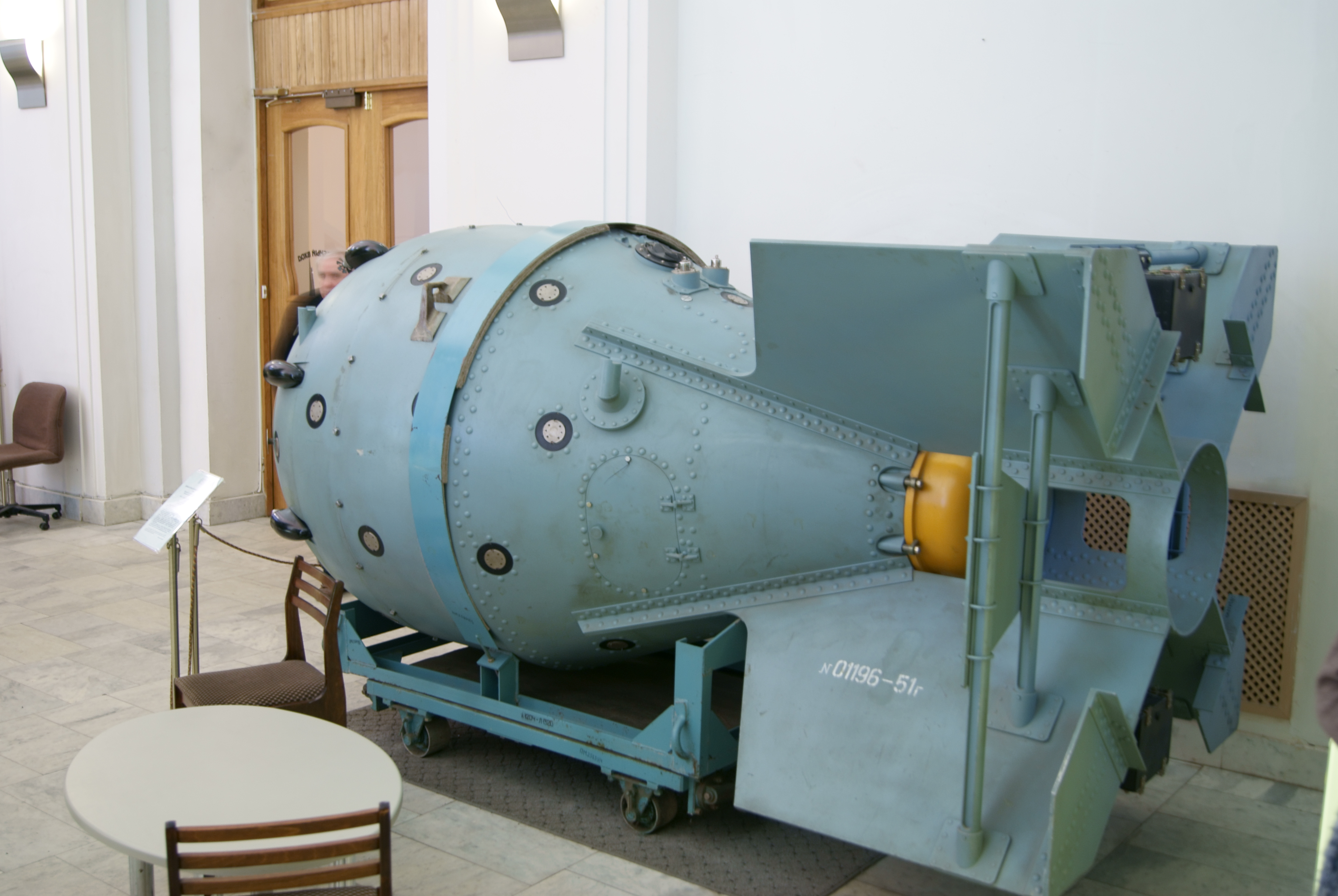 First soviet A-bomb